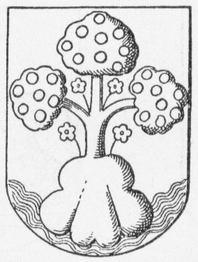 Coat of arms of Mols Herred (Hundred), a former administrative subdivision of Denmark, 1648 version. Illustration from the article Om danske By- og Herredsvaaben written by Anders Thiset and published in Tidsskrift for Kunstindustri 1893-1894.